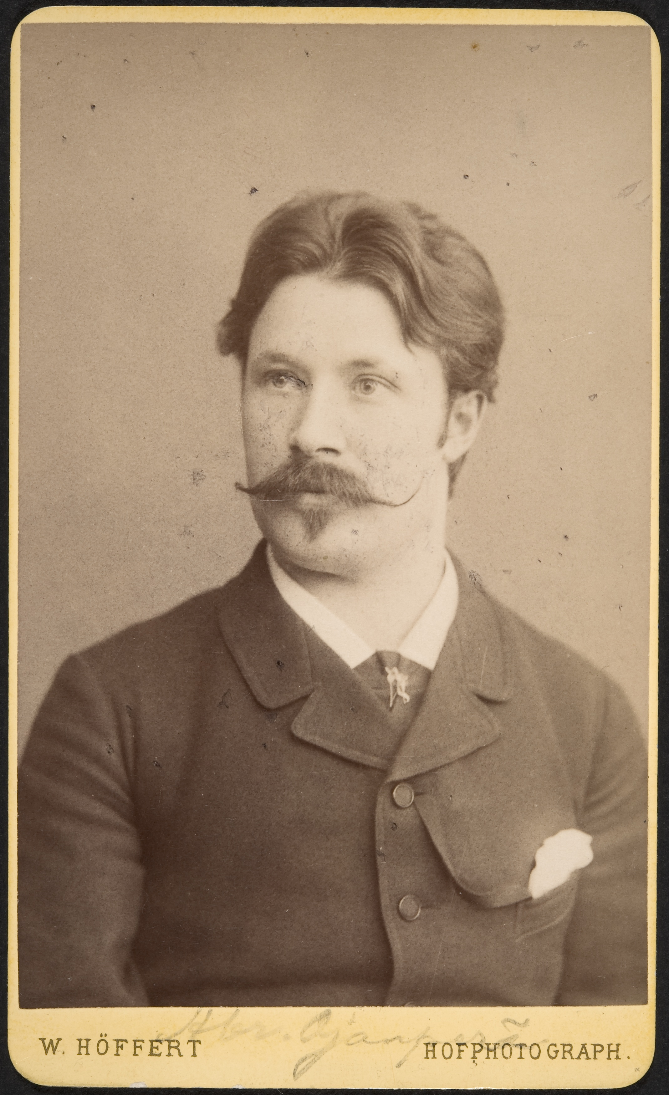 The Finnish opera singer Abraham Ojanperä (1859-1916) in Dresden, Picture from 1882-1885